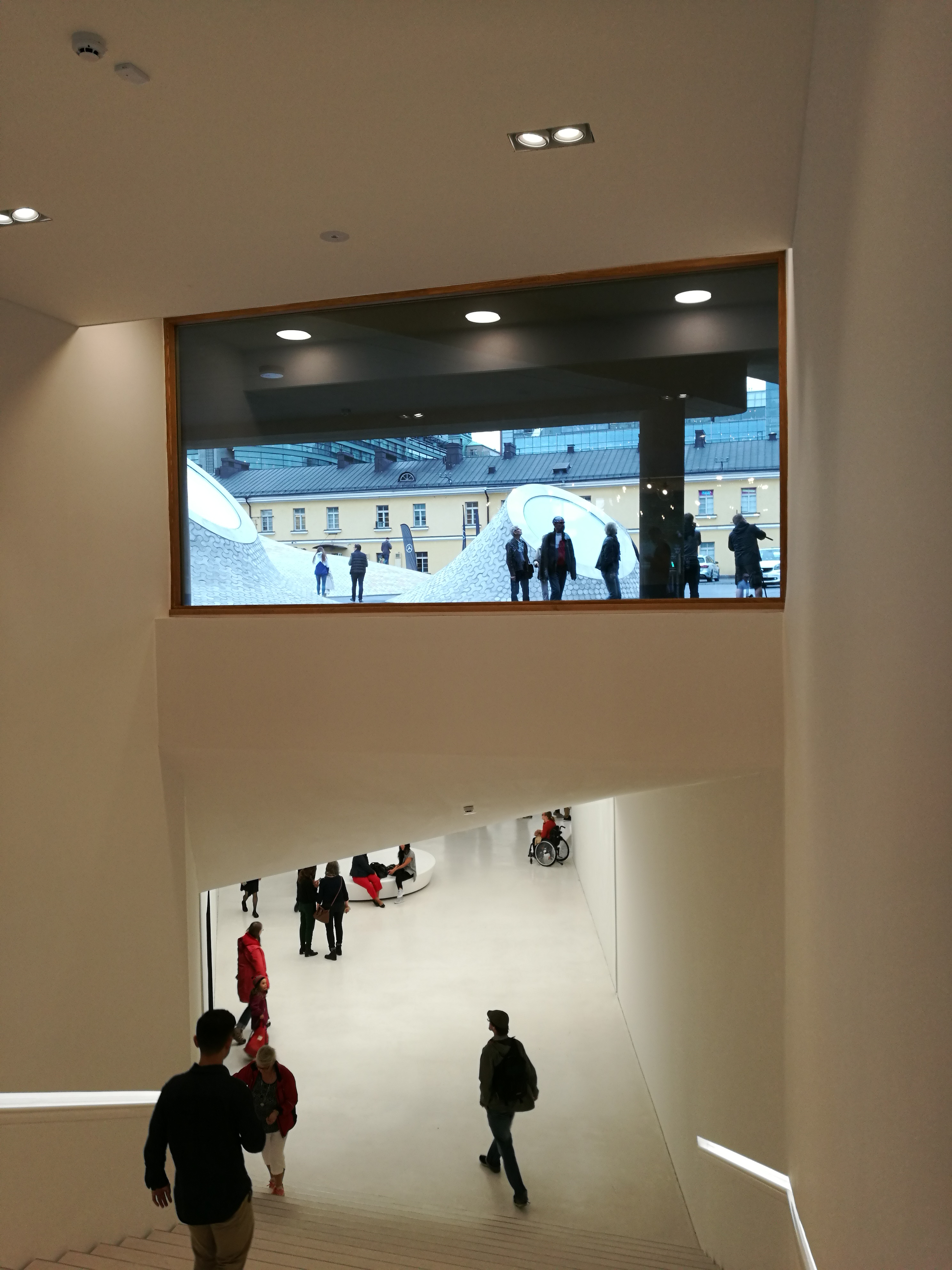 The entrance to the underground exhibition halls of Amos Rex art museum, on the opening day 30 August 2018.